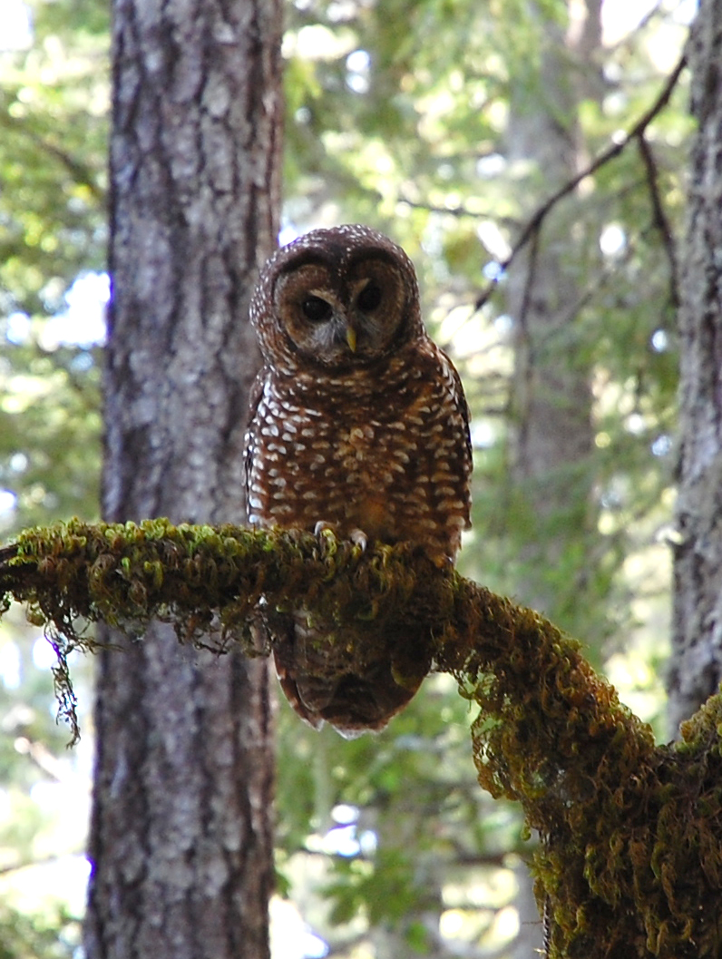 Spotted Owl, Humboldt Redwoods Park, California. They were just sitting there on the branch watching us.